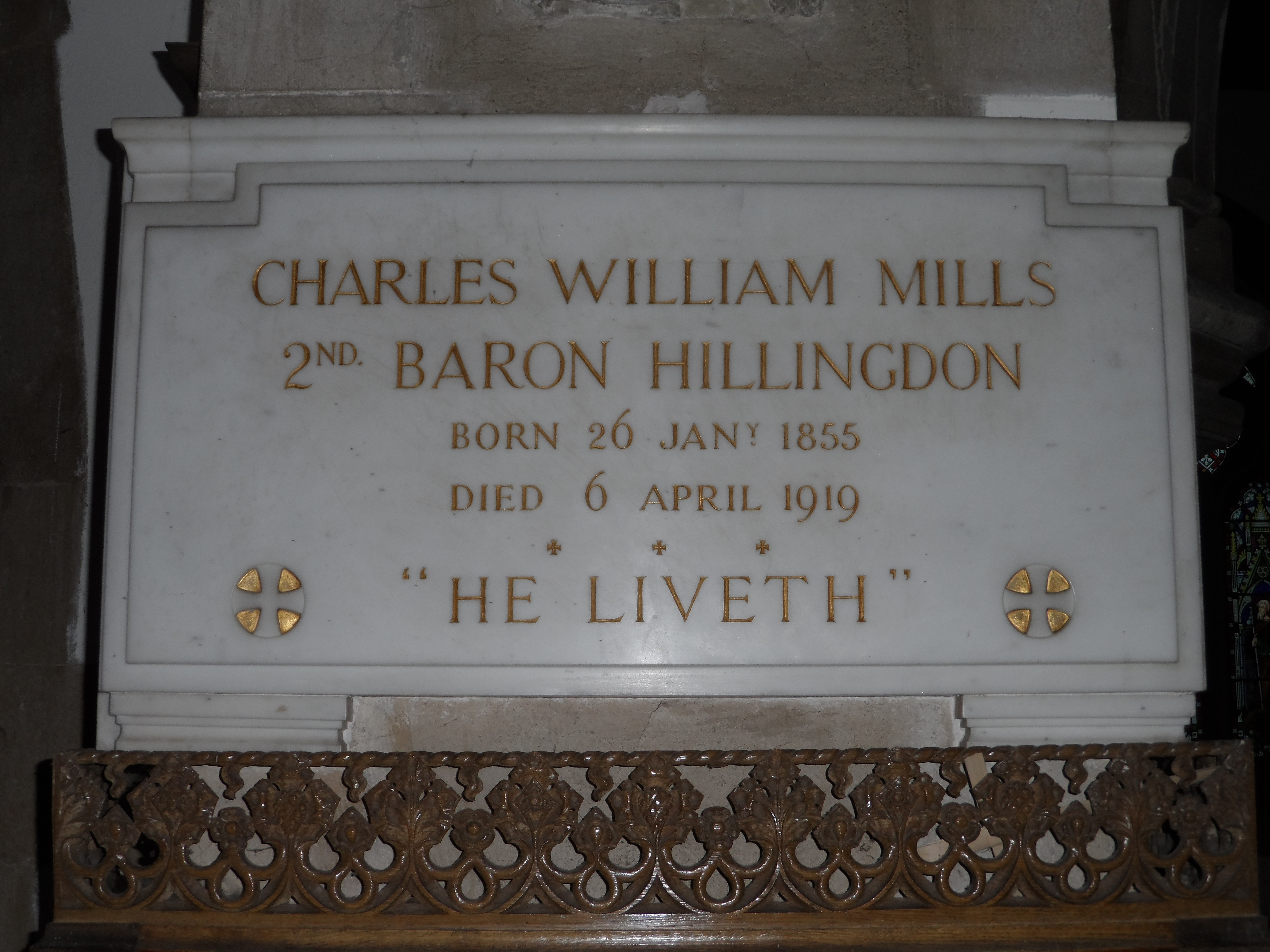 Charles William Mills memorial in St John the Baptist's Church, Hillingdon. Charles Mills, 2nd Baron Hillingdon. Inscription: Charles William Mills 2nd Baron Hillingdon Born 26 Jany. 1855 Died 6 April 1919. "He Liveth". This memorial is located opposite a similar one to his eldest son, Charles Thomas Mills, who died in WWI. See File:Charles Thomas Mills memorial in St John the Baptist's Church, Hillingdon 01.jpg.